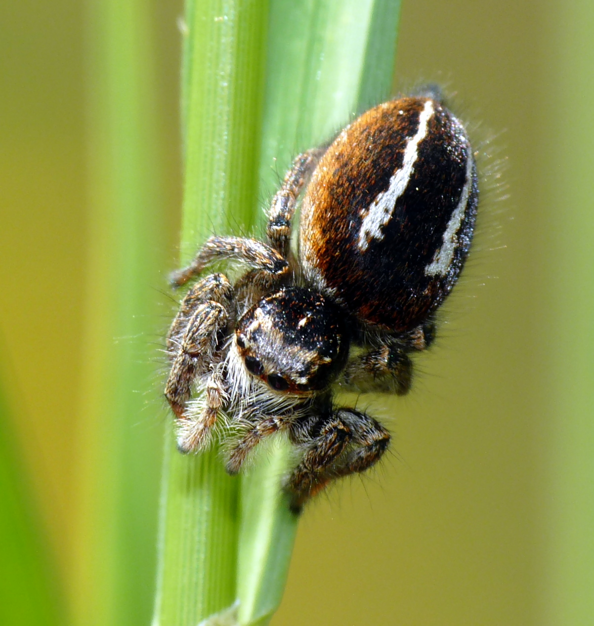 Philaeus chrysops, female - near Livorno, Tuscany, Italy